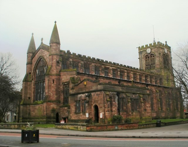 The parish church of St Mary the Virgin, Leigh, Greater Manchester, England straddles the boundaries of two of the ancient townships that made up the ancient parish. The old townships were Westleigh and Pennington. There has been a church on this site for several hundred years but the present church dates from the 1870s. The tower is older and has a peel of eight bells.